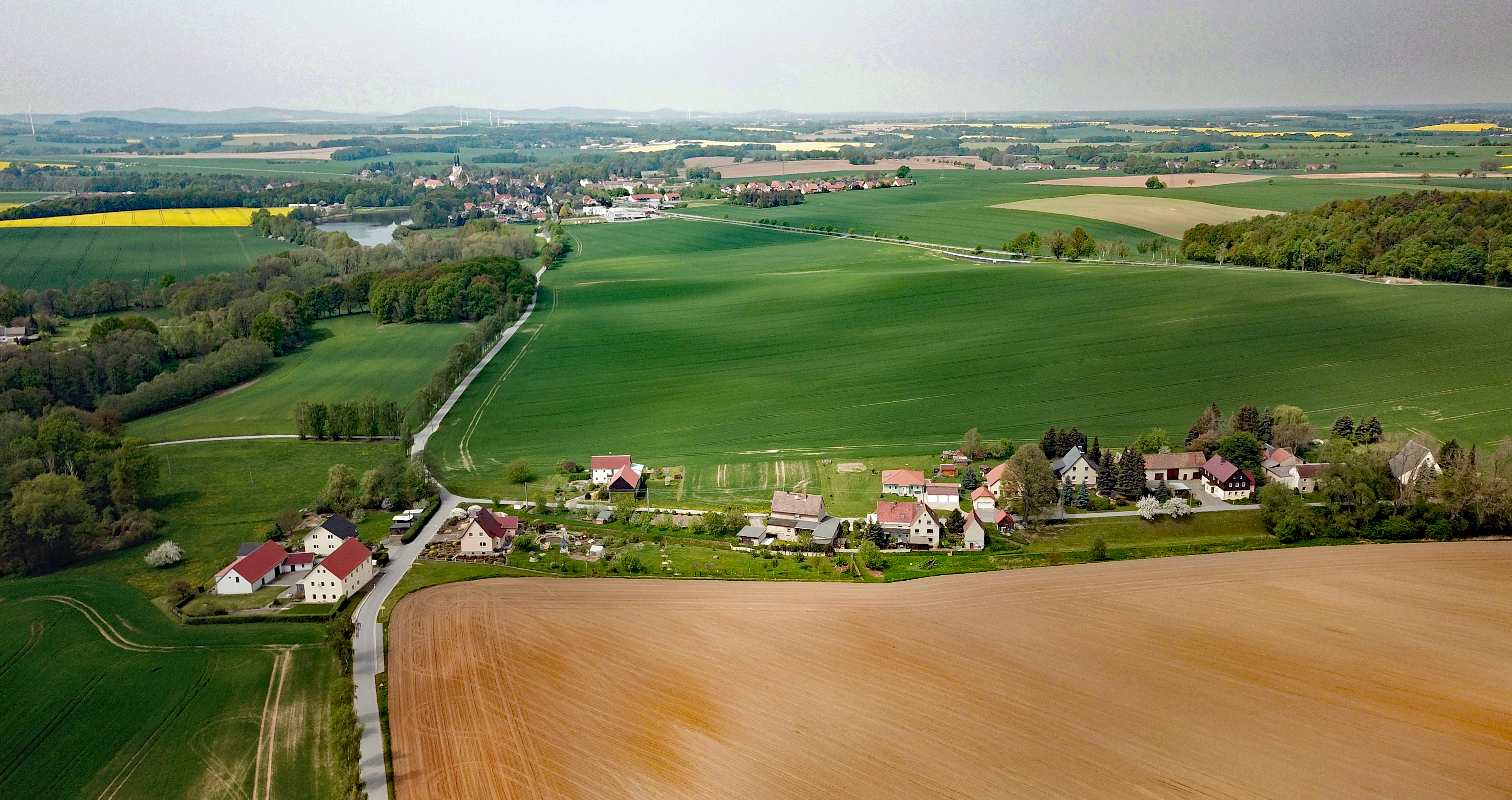 Preske (Göda, Saxony, Germany) Hornjoserbsce: Powětrowy wobraz Praskowa z Hodźijom w pozadku